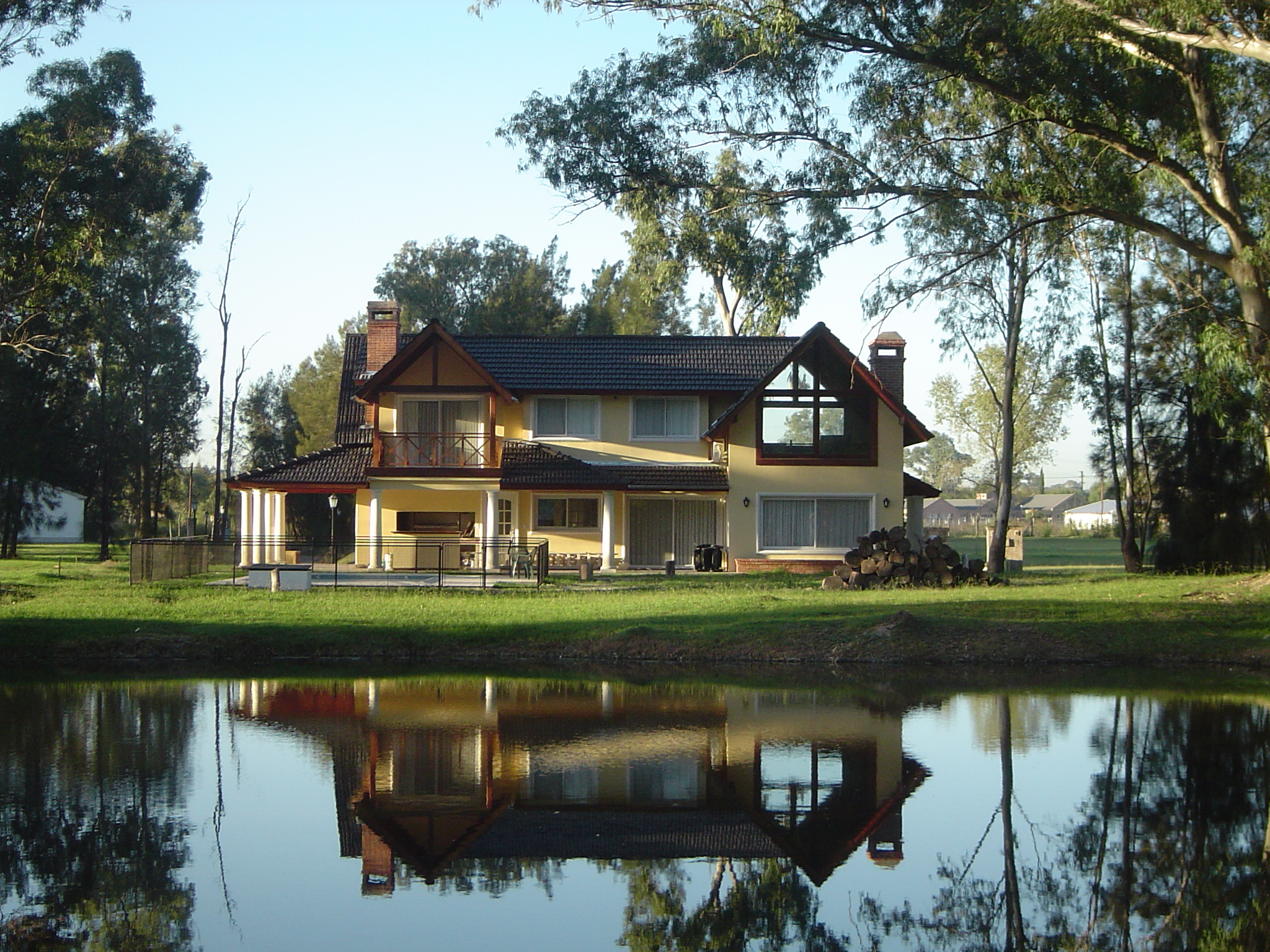 House designed by architect Osvaldo De Angelis in the Fincas del Lago neighborhood of Belén de Escobar, Buenos Aires Province, Argentina.